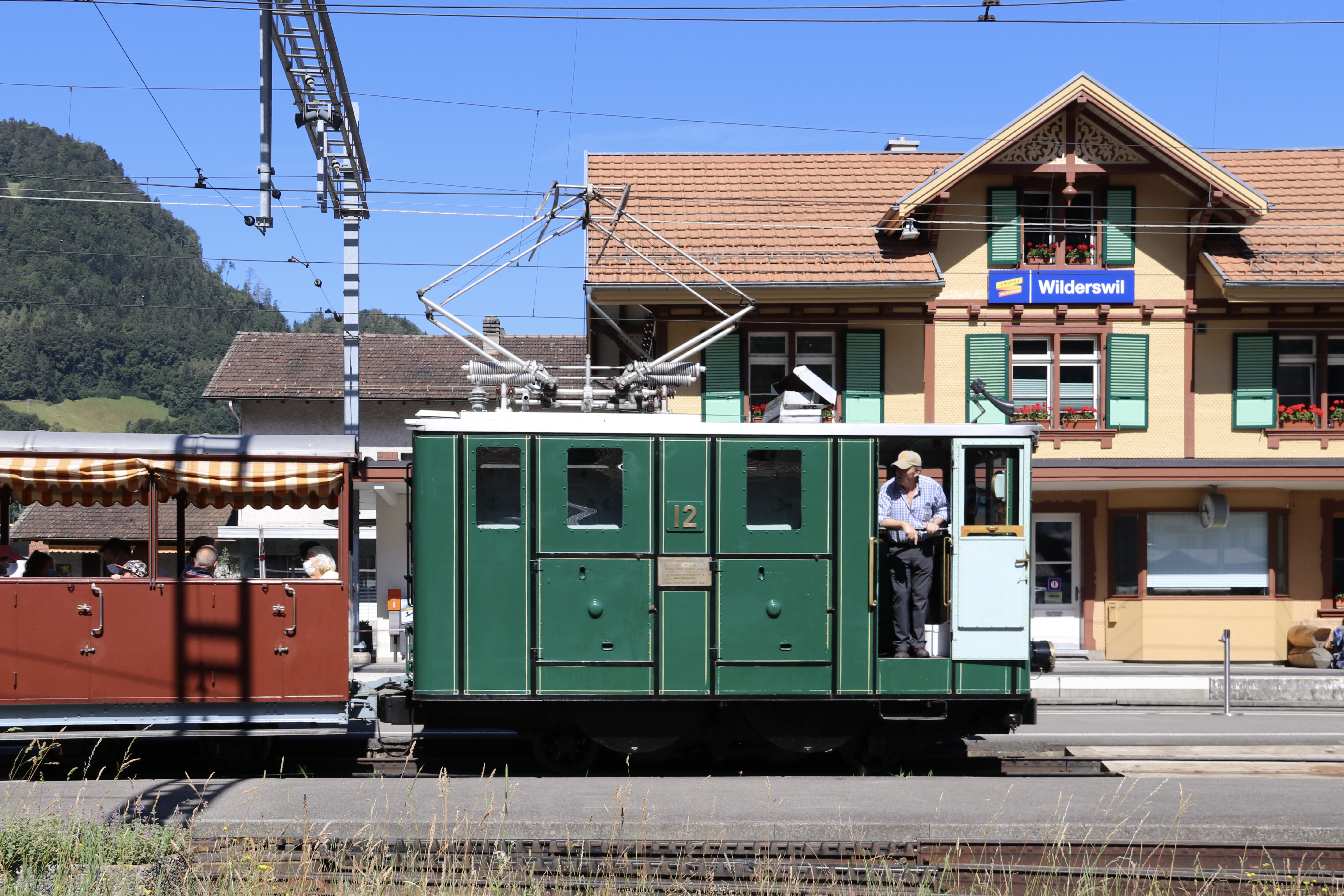 BOB-Schynige Platte railway cogwheel locomotive in Wilderswil